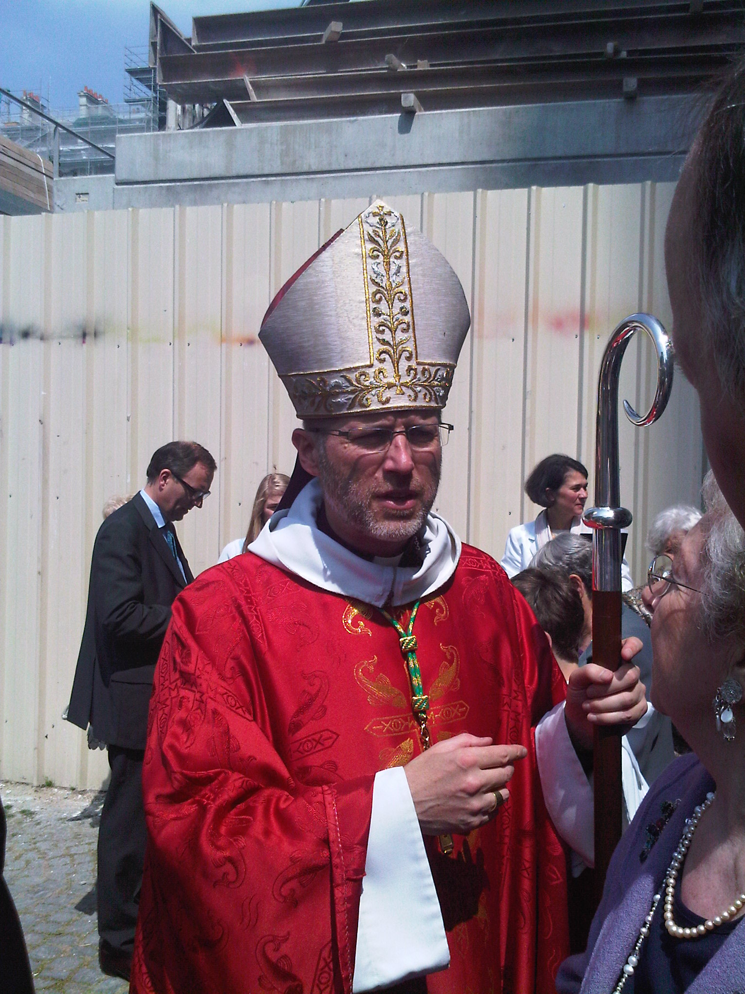 Renauld de Dinechin, auxiliary bishop of Paris, 2010.